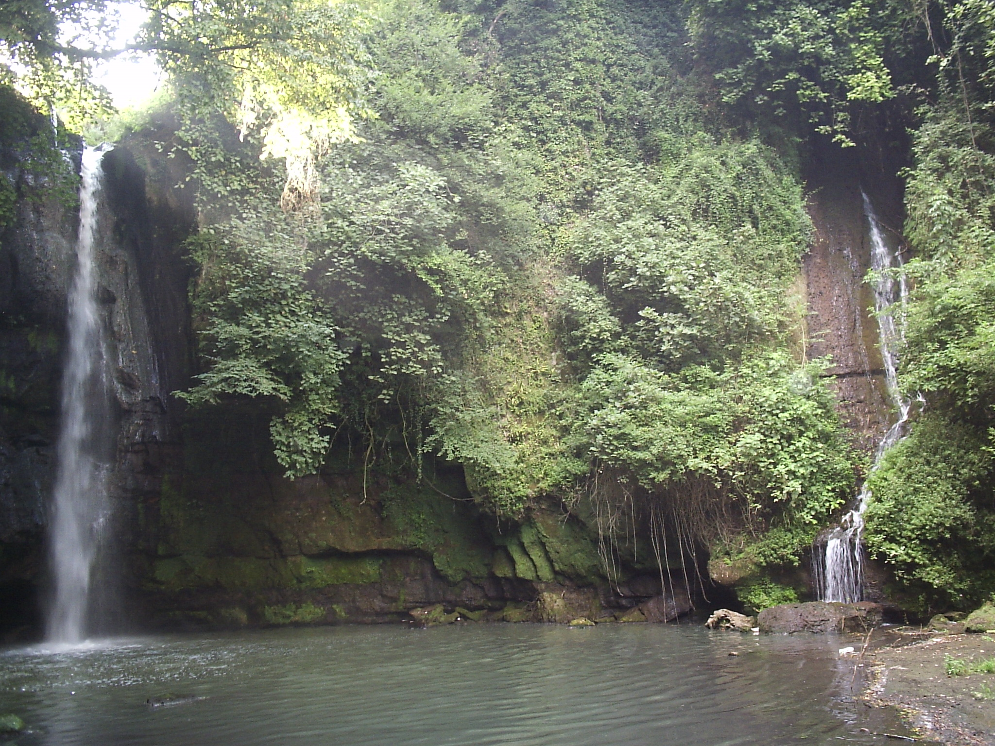 "Caduta del Picchio" Falls